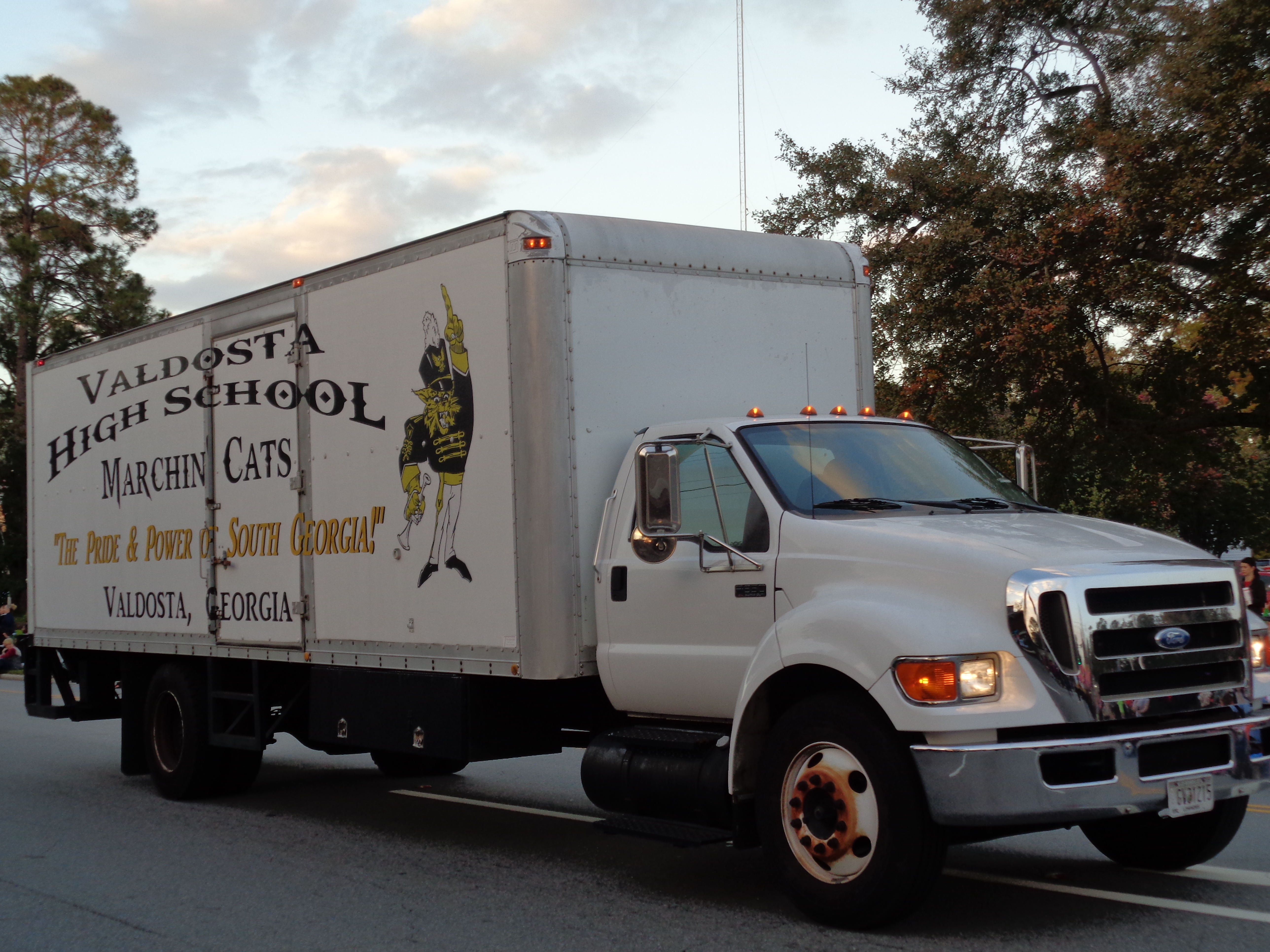 Valdosta High School Marchin' Cats at the 2015 Greater Valdosta Community Christmas Parade, Valdosta, Lowndes County, Georgia